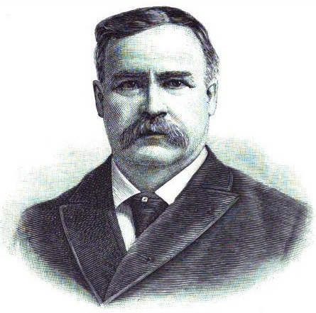 Edward P. Allen, Michigan Congressman